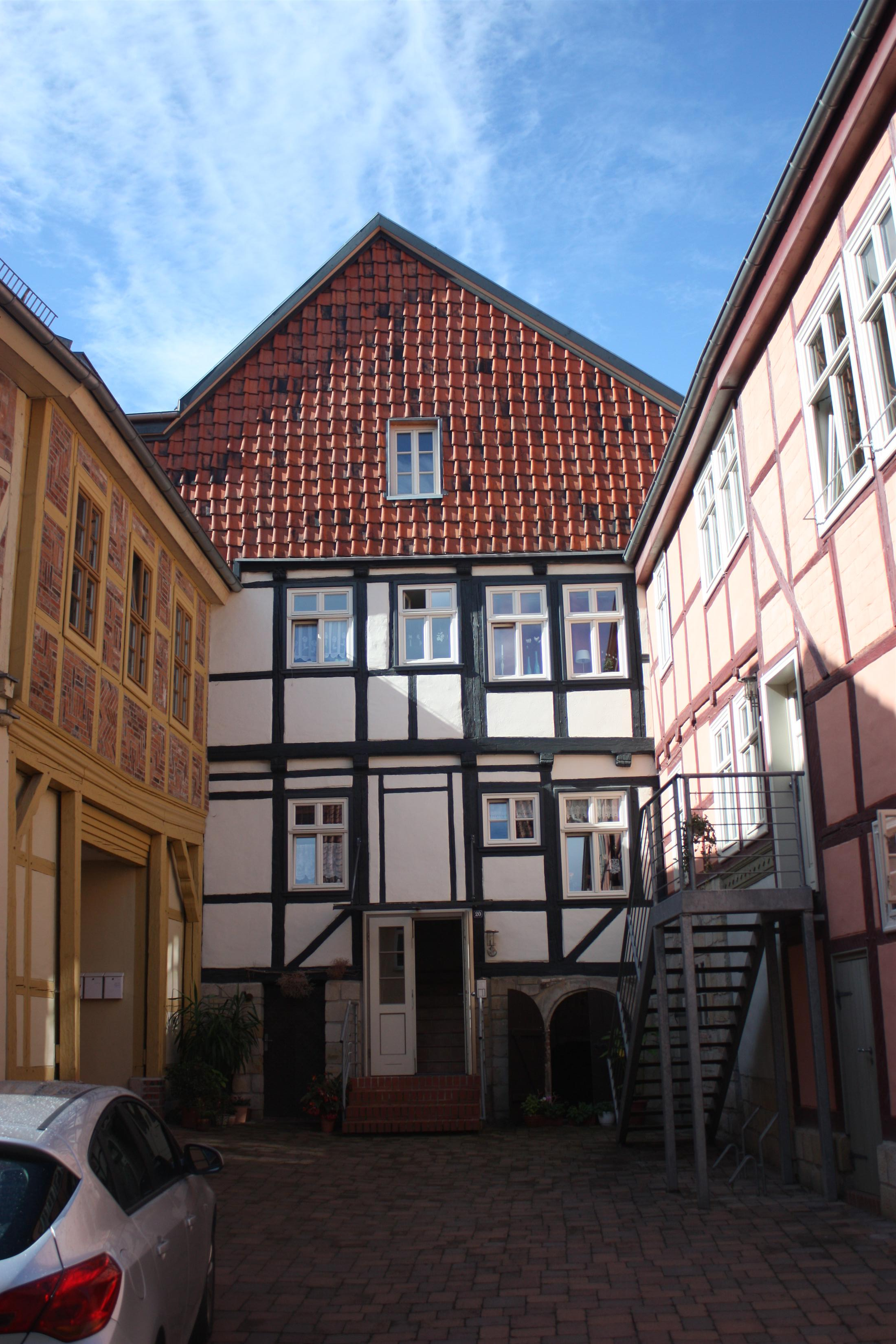 This is a photograph of an architectural monument.It is on the list of cultural monuments of Quedlinburg Quedlinburg Lange Gasse